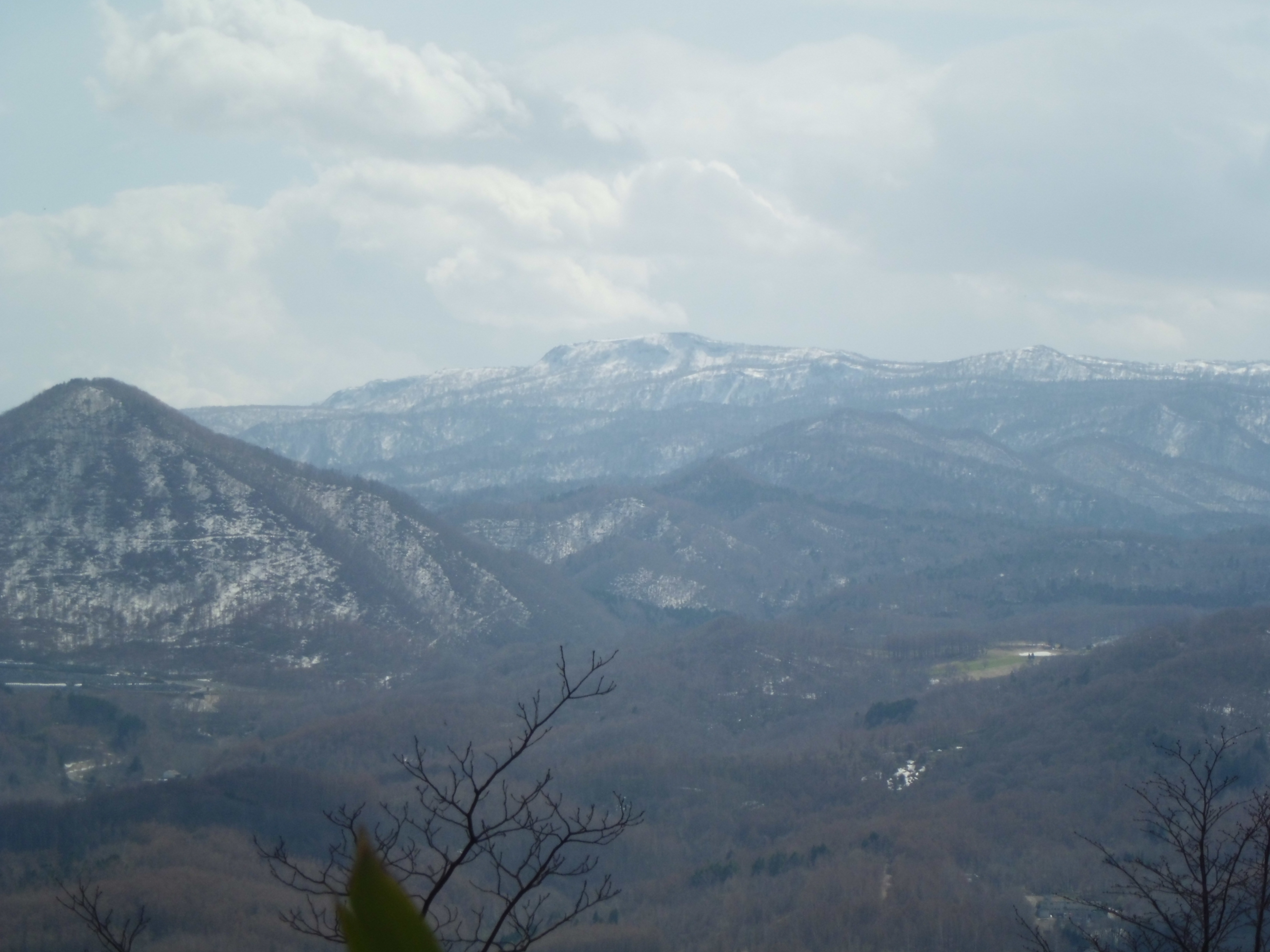 Mount Soranuma looking from Mount Kataishi